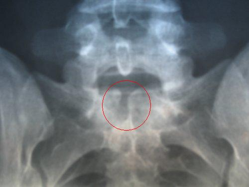 X ray image of a pelvis of a 16 year old female with Spina Bifida occulta in S-1.